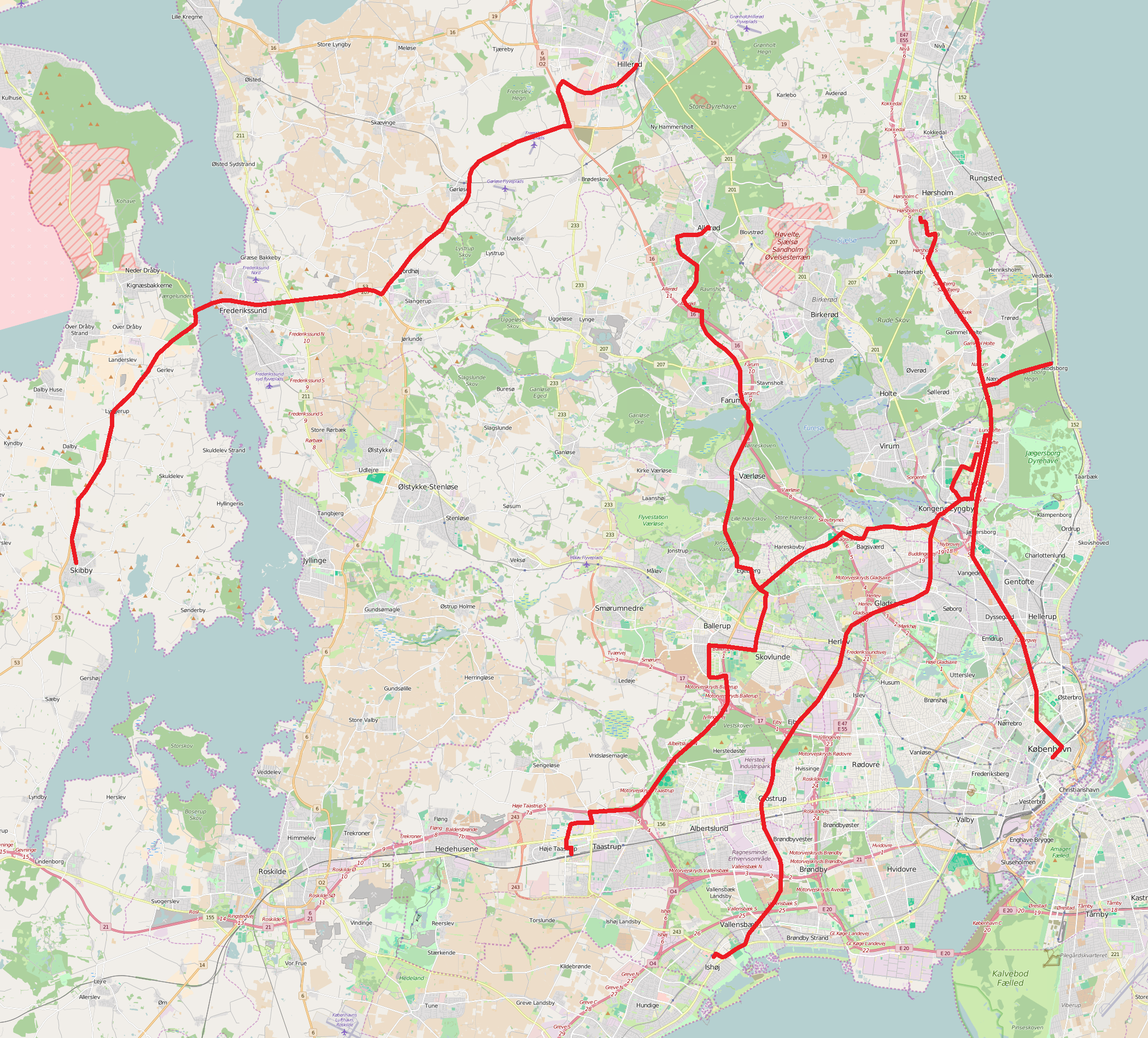 Map of the Copenhagen E-bus network as of 30 January 2017. This map may be incomplete, and may contain errors. Don't rely solely on it for navigation.